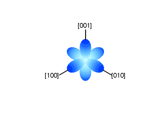 Magnetic energy vs direction of magnetization for a ferromagnet with cubic anisotropy.